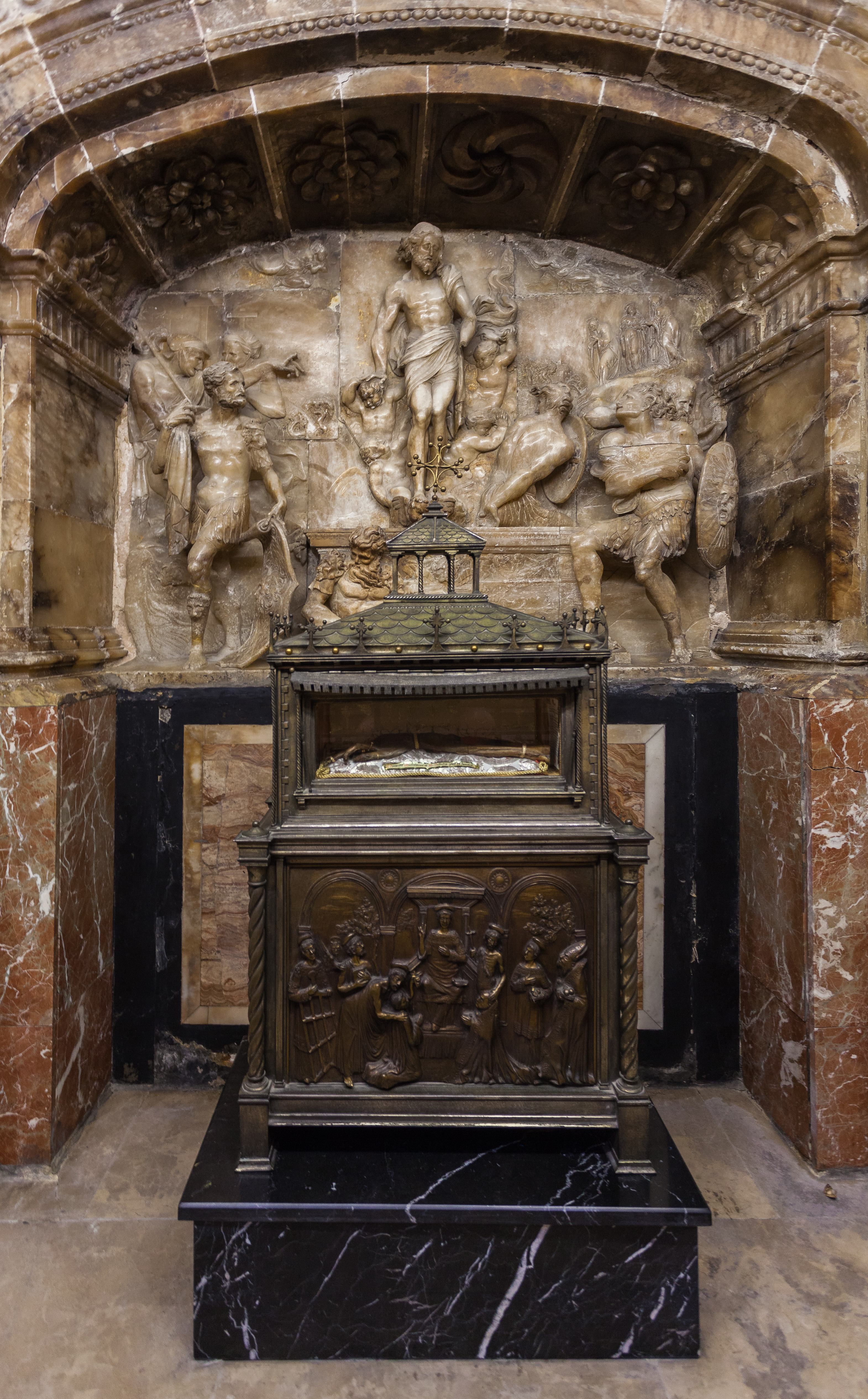 Resurrection Chapel, Valencia Cathedral, Valencia, Spain